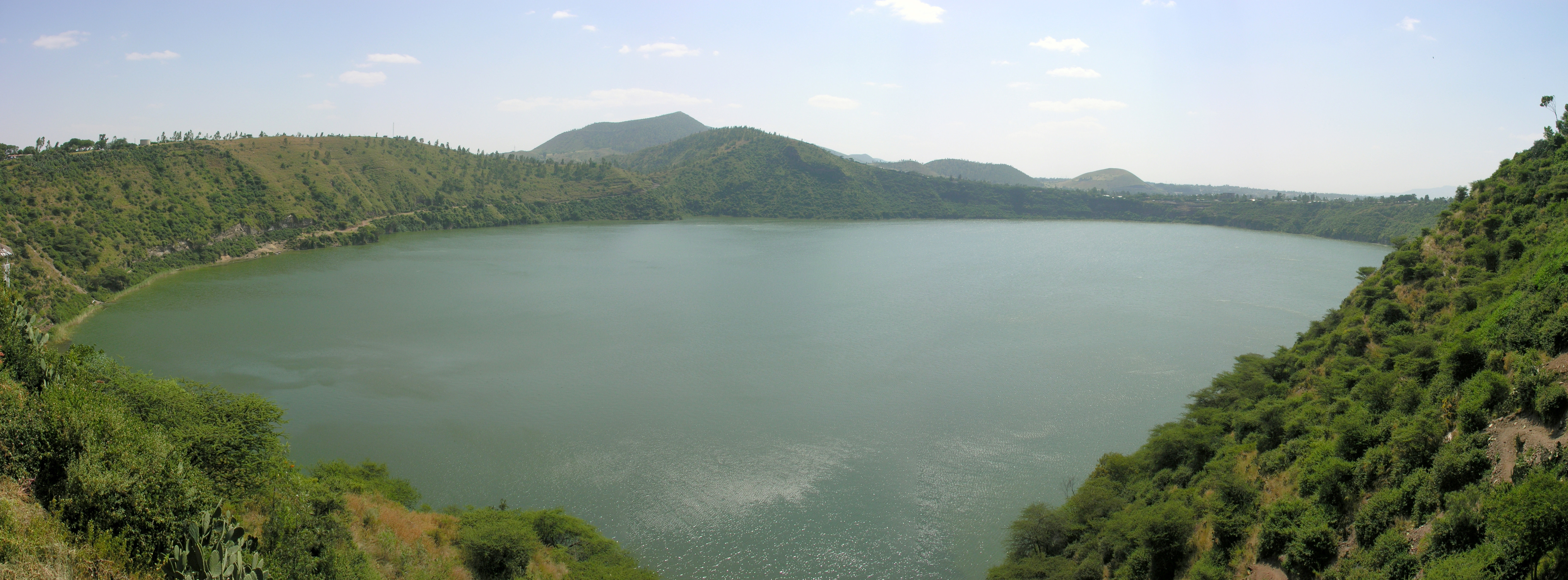 Ethiopia, Crater Lake Debre Zeyt